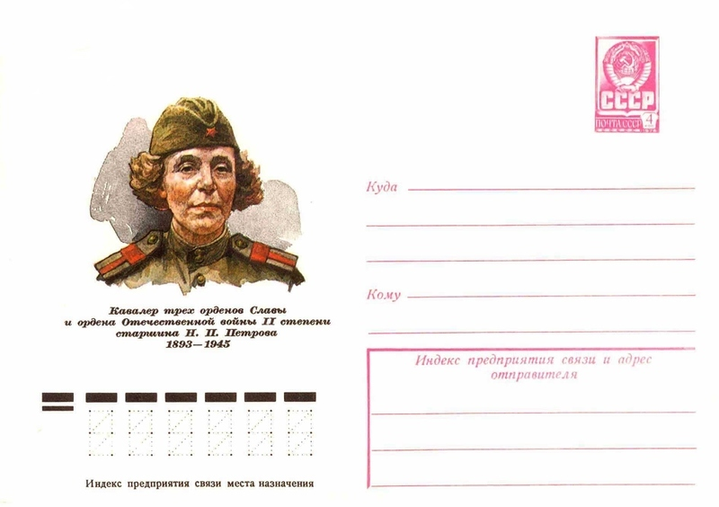 1978 Soviet postal cover featuring portrait of female sniper and full bearer of the Order of Glory Nina Petrova